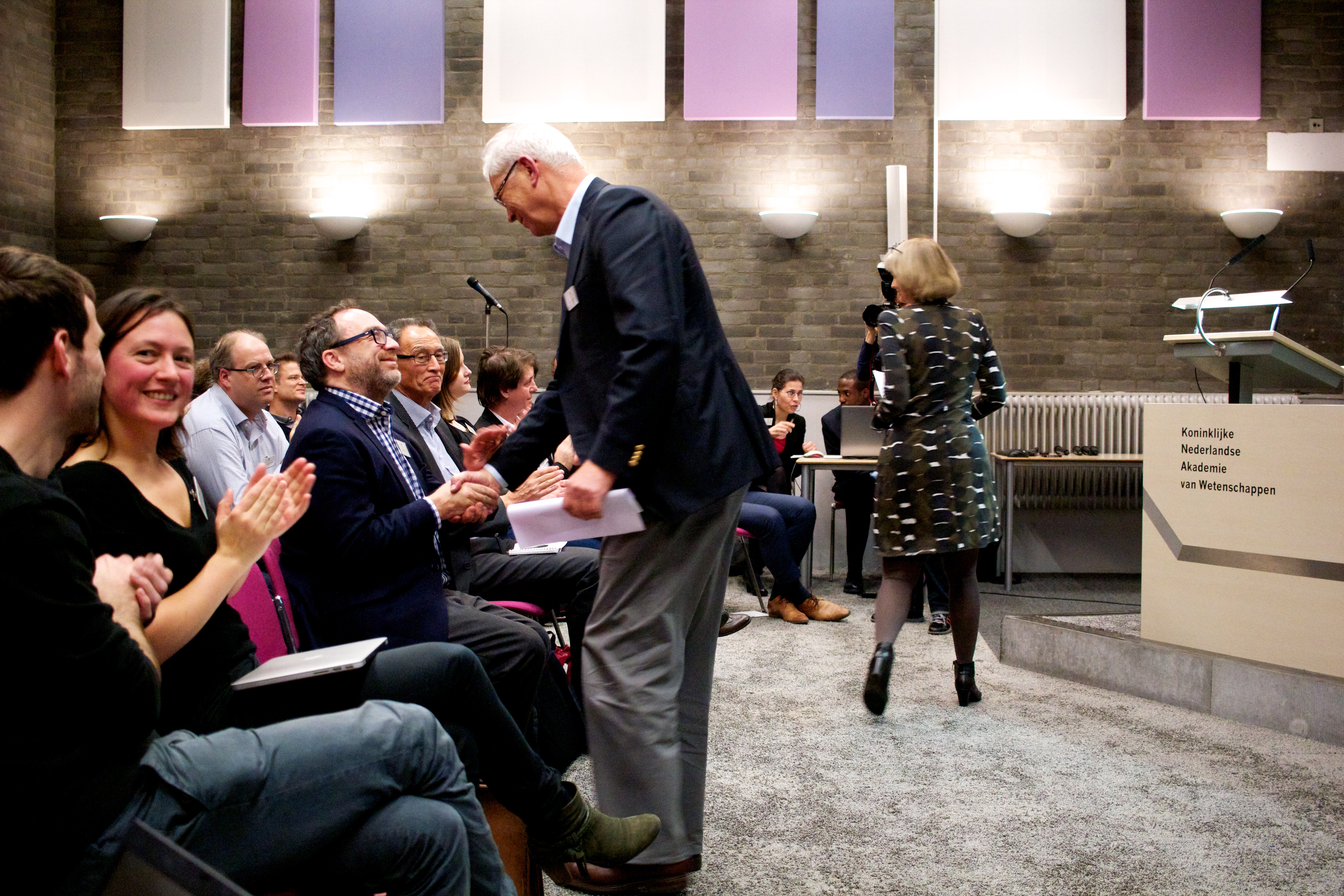 Max Sparreboom and Jimmy Wales shake hands after Max Sparreboom announced that the yearly Erasmus Prize will be awarded to Wikipedia in 2015.